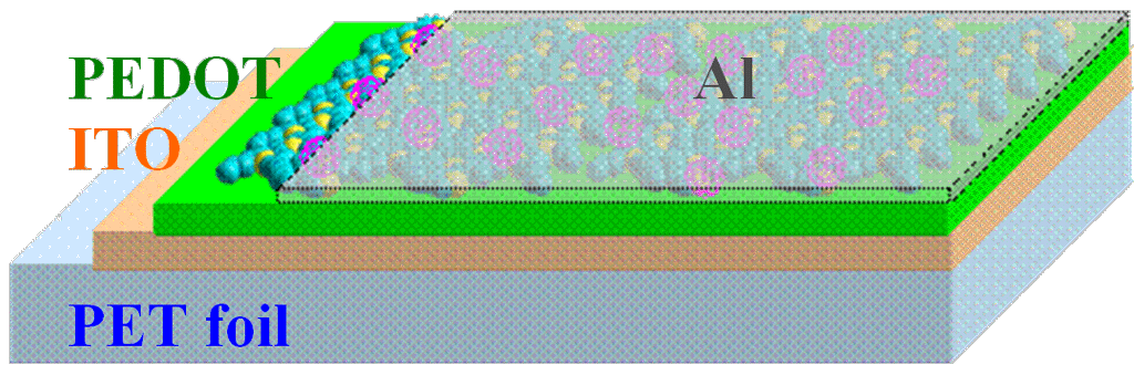 Scheme of the poly(3-dodecylthiophene)/fullerene solar-cell Created by Victor I. Krinichnyi References [1]